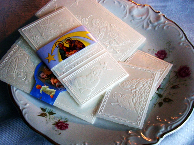 Christams wafer